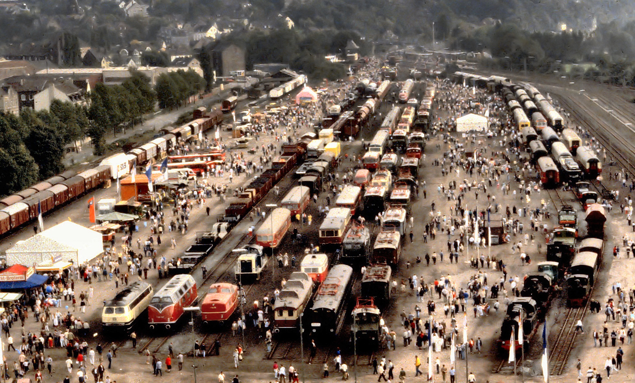 Railway festival in Bochum-Dahlhausen Railway Museum to celebrate 150 years of German railways